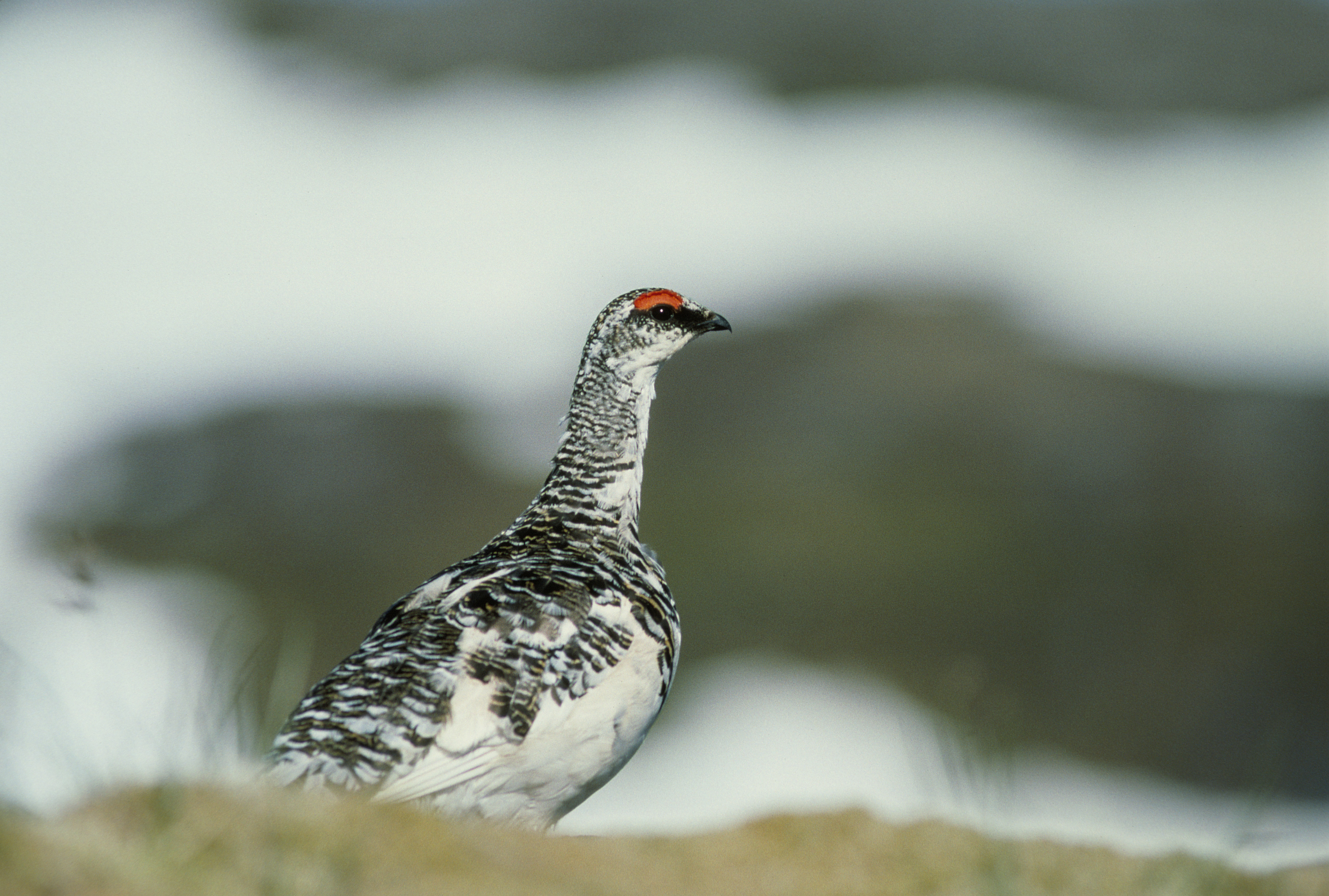 Lagopus muta rupestris, Alaska.